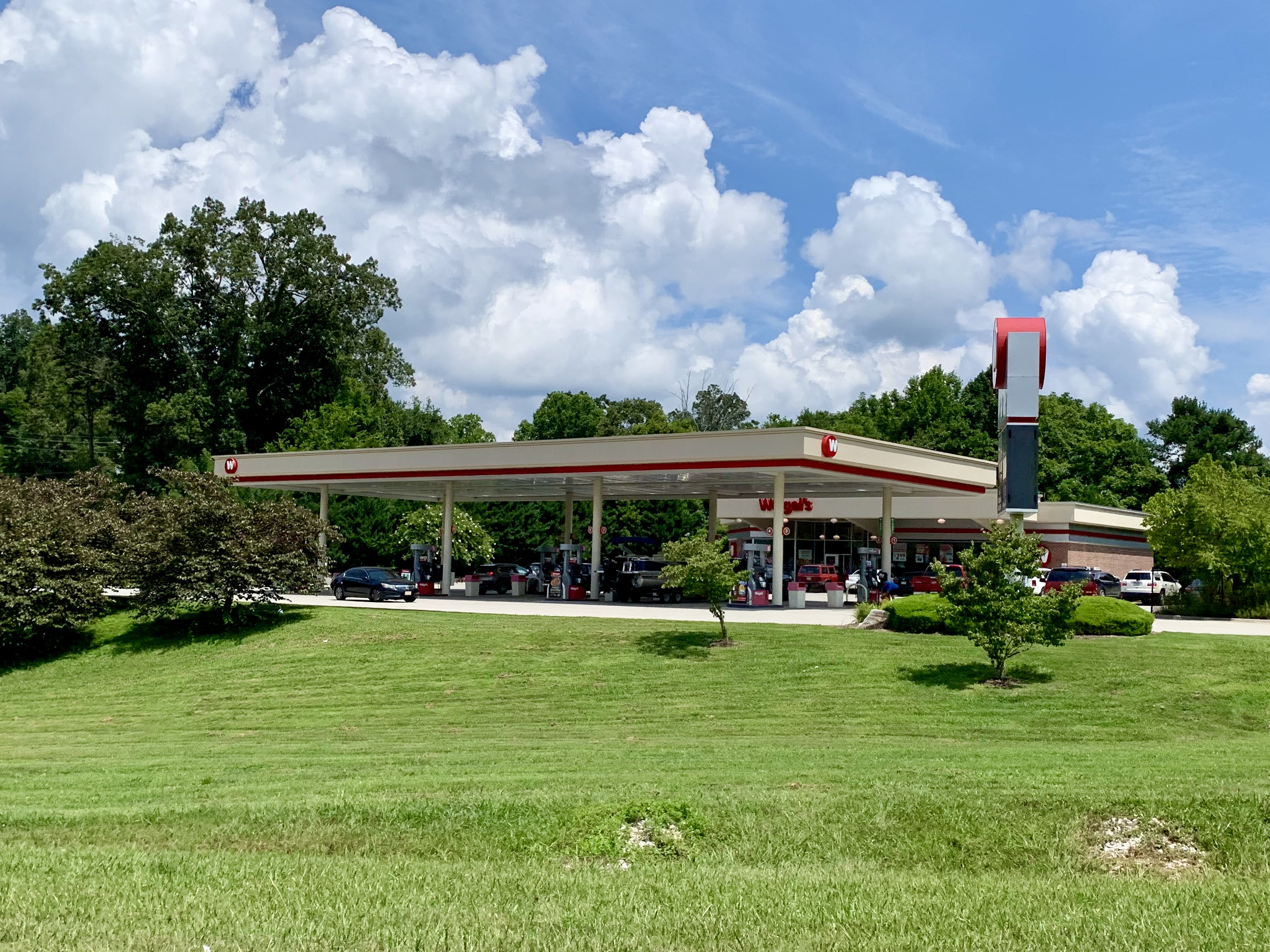 A Weigel’s gas station and convenience store (Location #68) in Morristown, Tennessee, United States